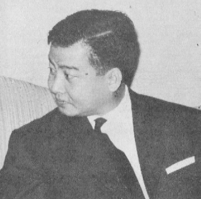 Sihanouk with President Eisenhower (cropped)